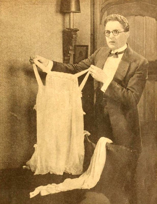 Still from the American comedy film The Sins of St. Anthony (1920) with Bryant Washburn, from an adaption of the film on page 41 of the July 1920 Motion Picture Magazine.